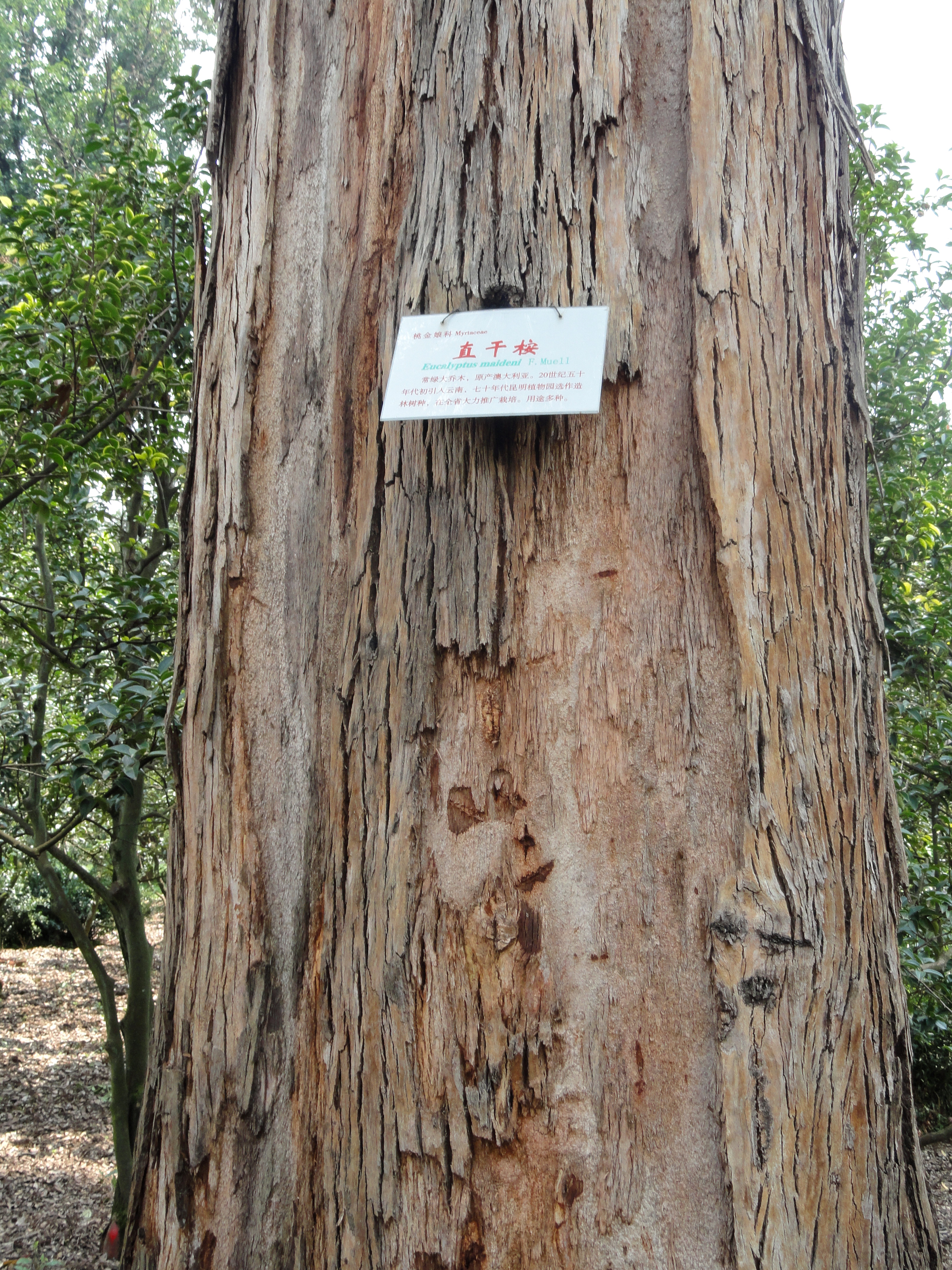 Plant specimen in the Kunming Botanical Garden, Kunming, Yunnan, China.